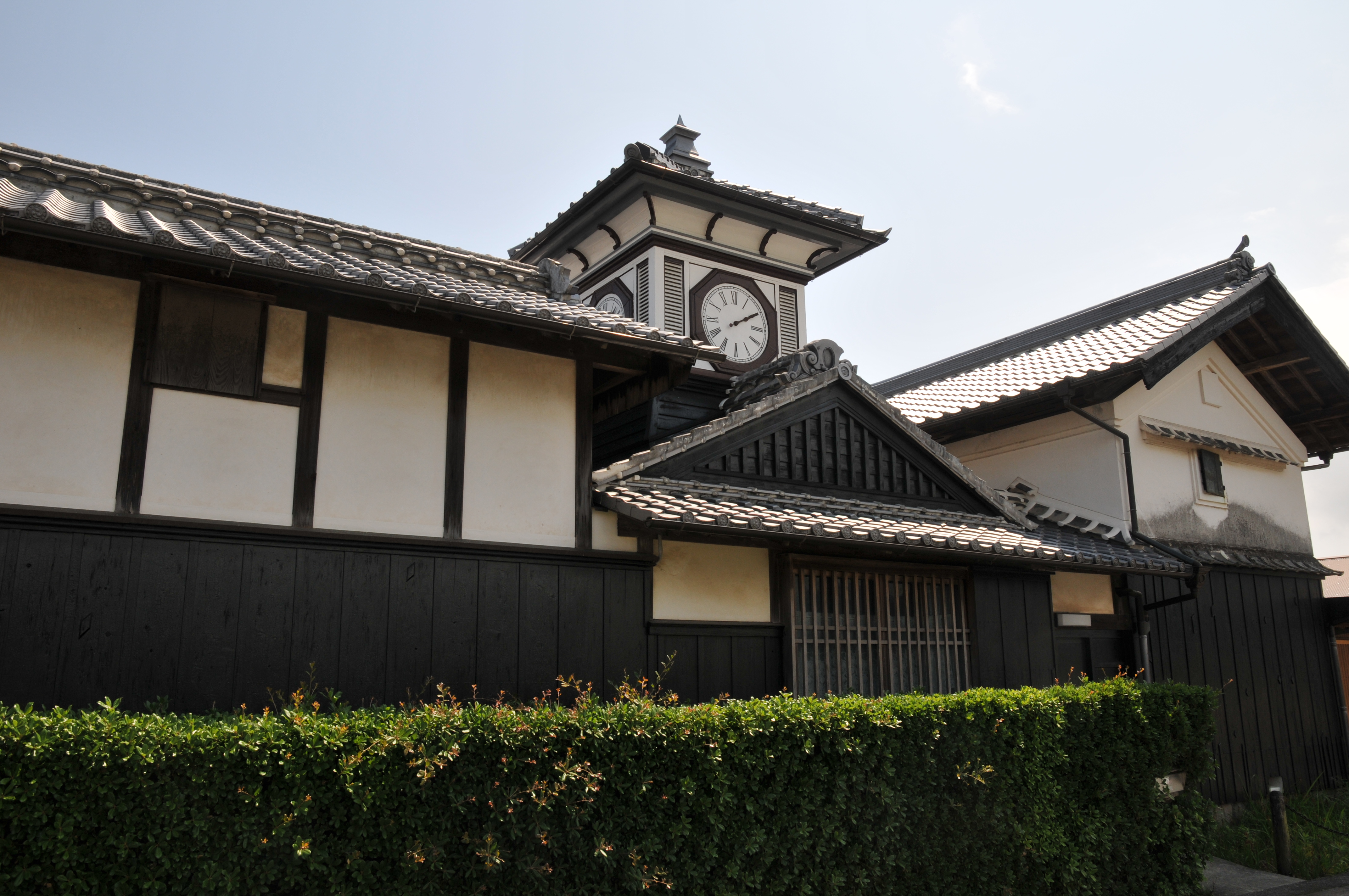 Noradokei (the turret clock)